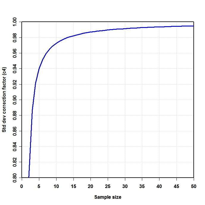 Plot of correction factor c4 for unbiased estimation of standard deviation